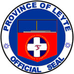 Provincial seal of Leyte, Philippines.